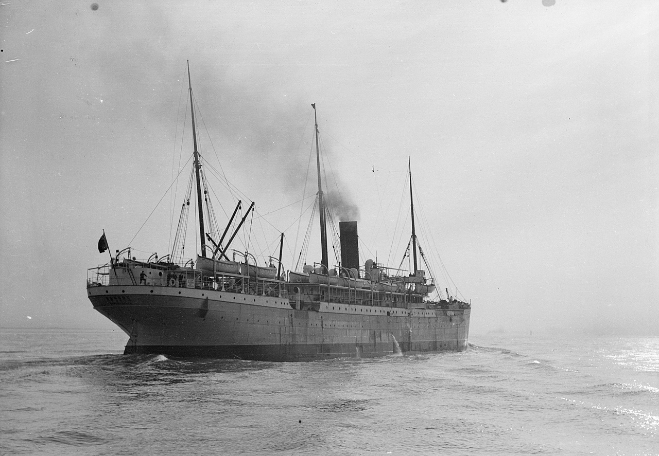 Reproduction ID: P00038 Maker: Unknown Date: Unknown Materials: Gelatine dry plate Henley Collection